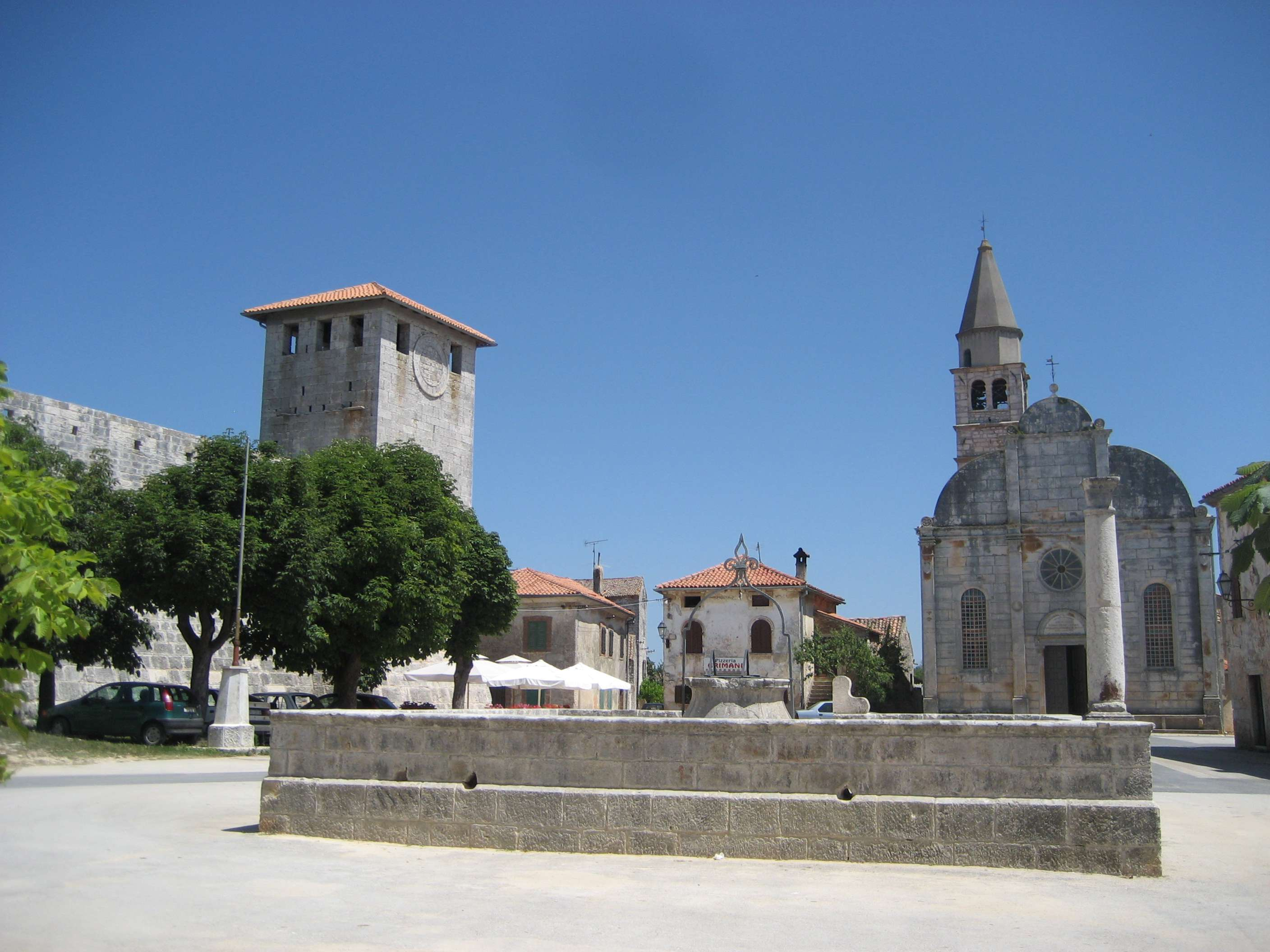 Svetvincenat, Croatia